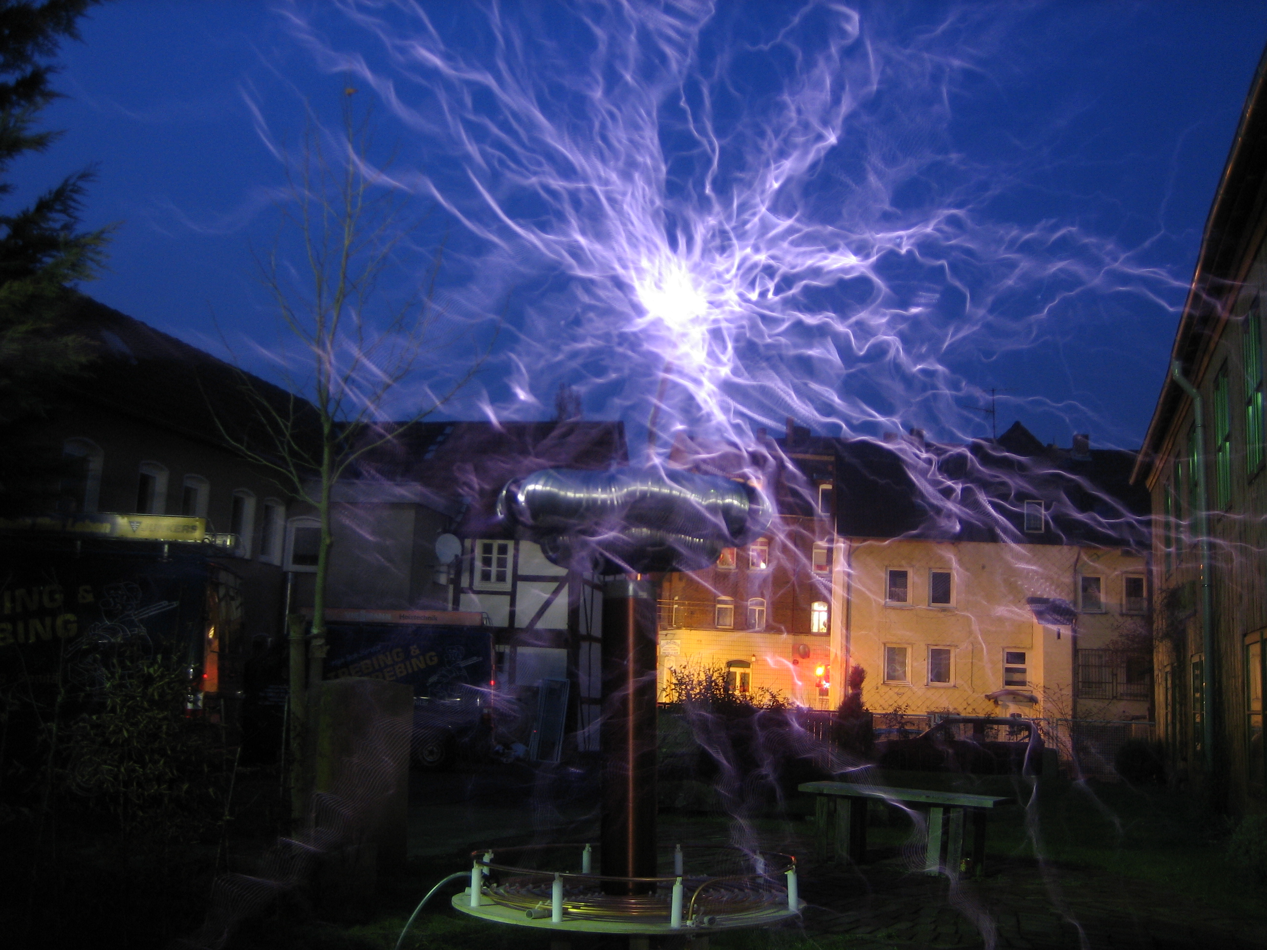 Tesla Coil with a 20mm electrode on toroide. The electrode is facing the camera